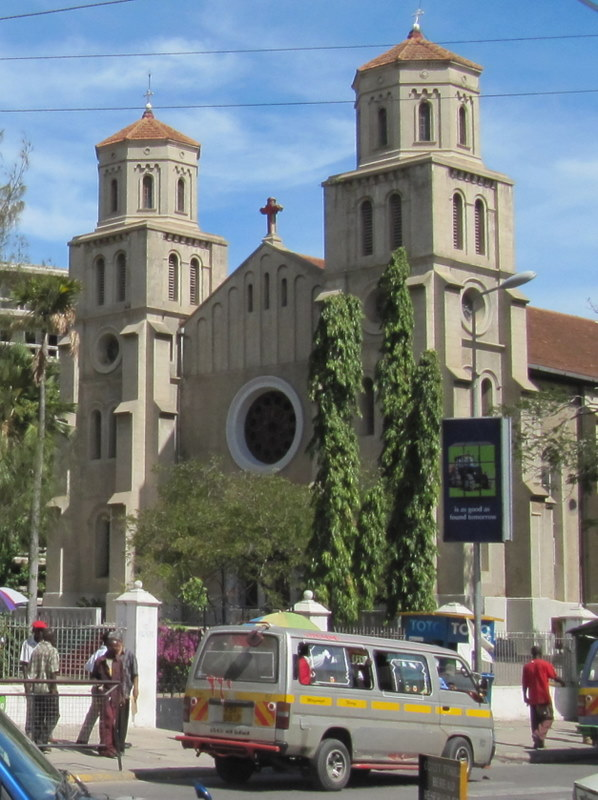 Holy Ghost Roman Catholic church in Mombasa, Kenya